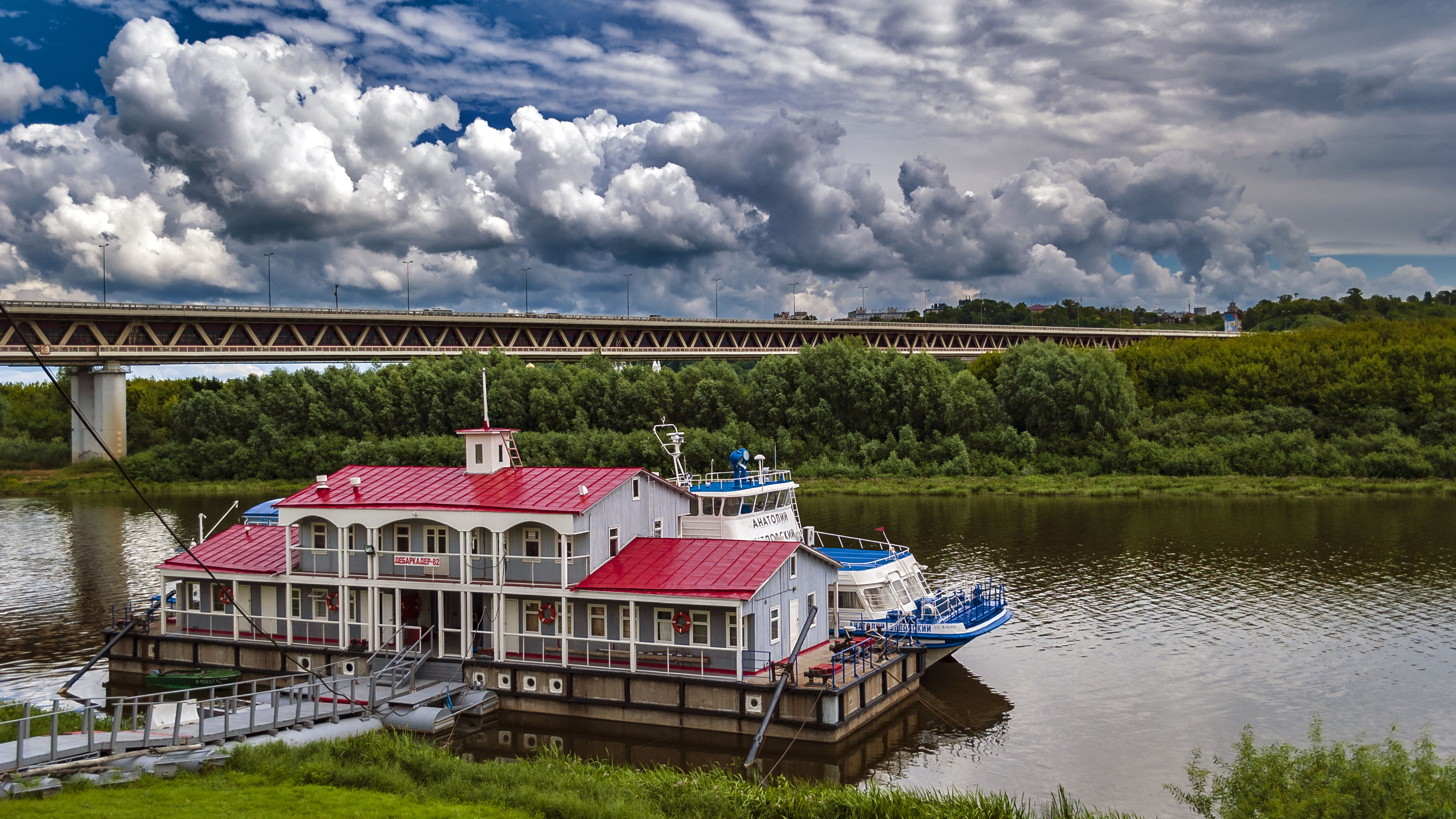 Nizhny Novgorod Metro Bridge and the wharf in Oka River